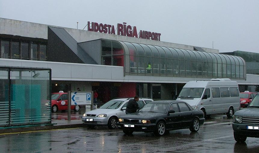 Riga Airport.